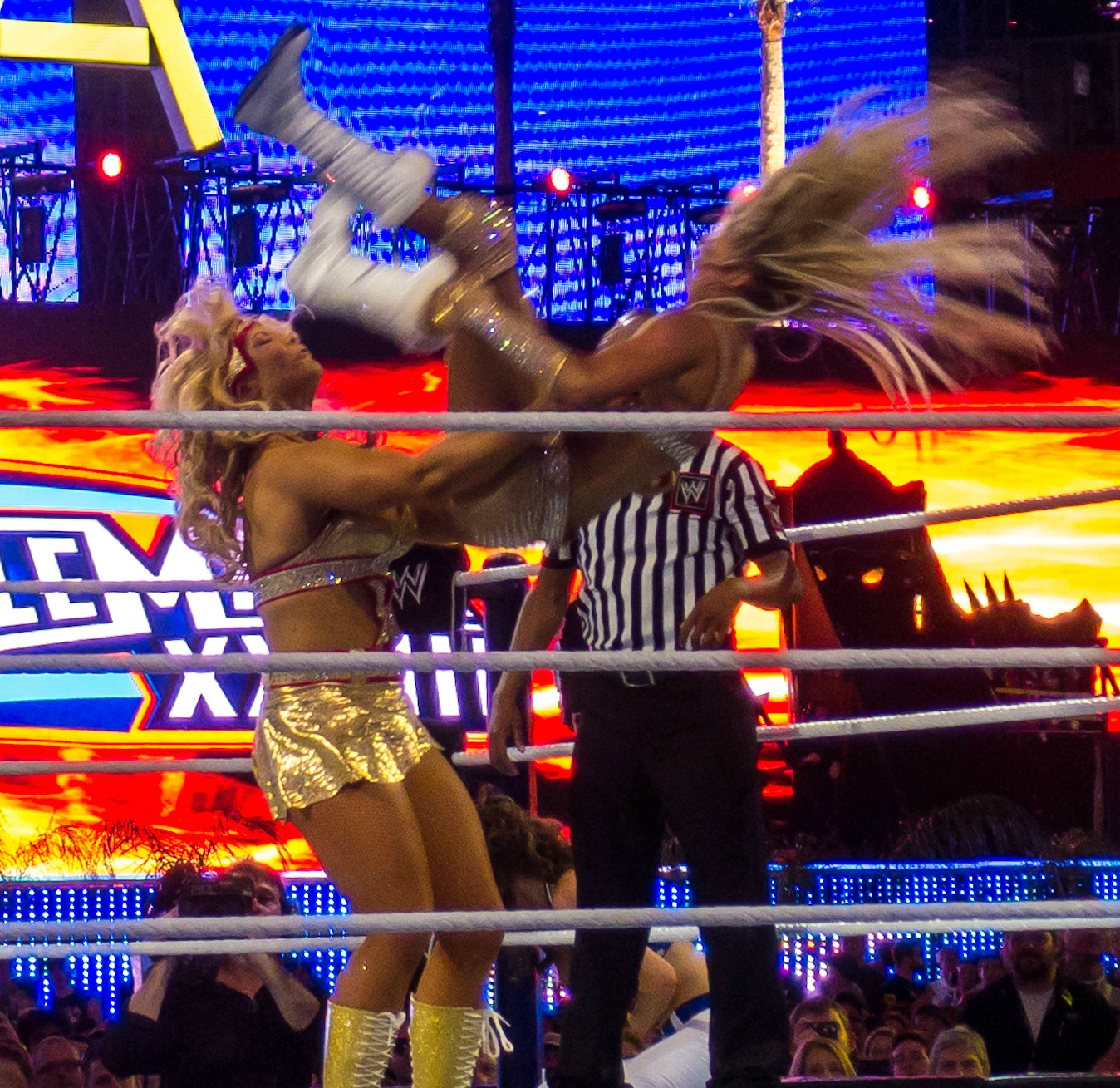 Kelly Kelly wrestling at WrestleMania XXVIII in April 2012.